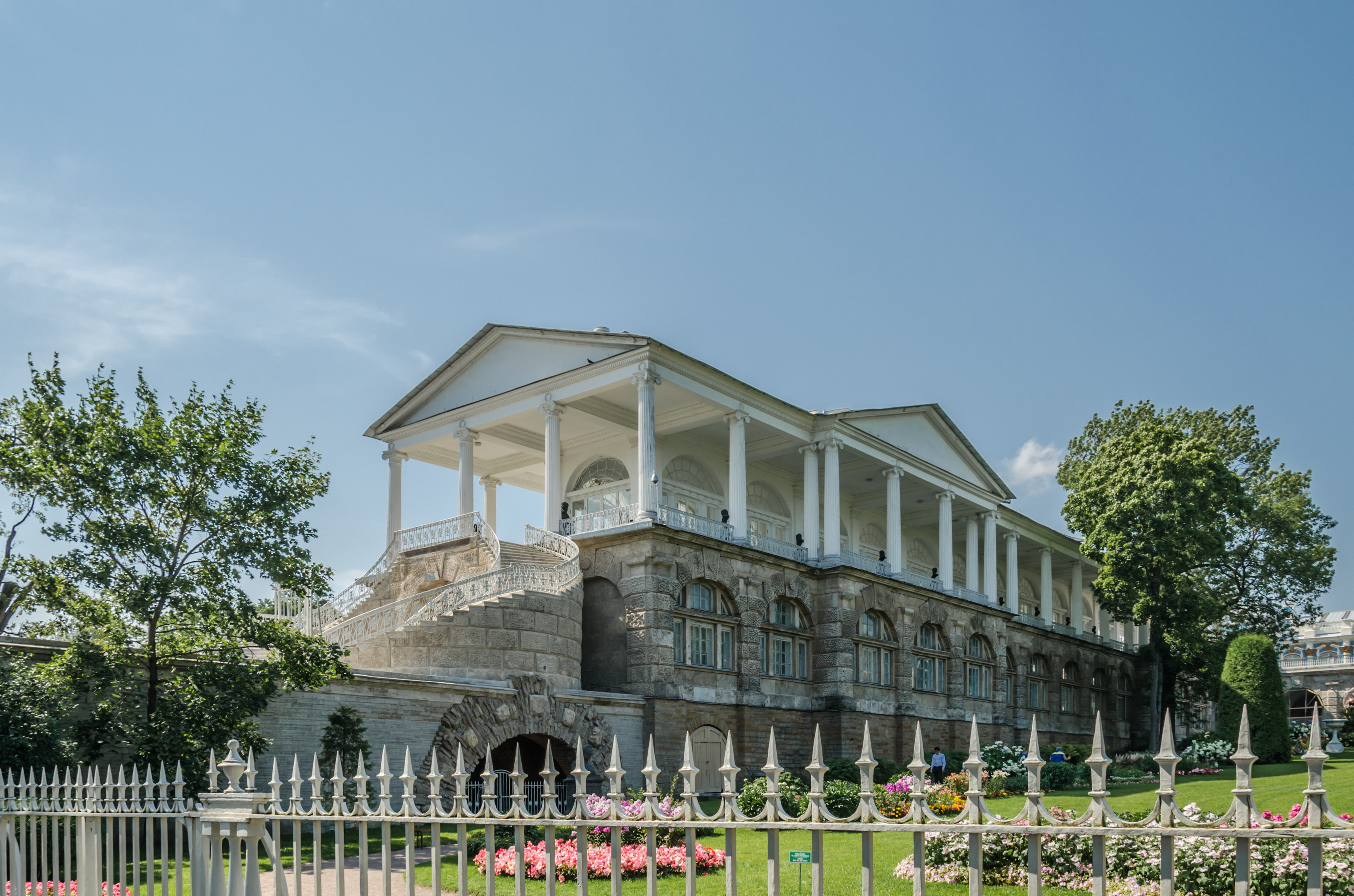 Cameron gallery in Catherine park of Tsarskoe Selo, Saint Petersburg